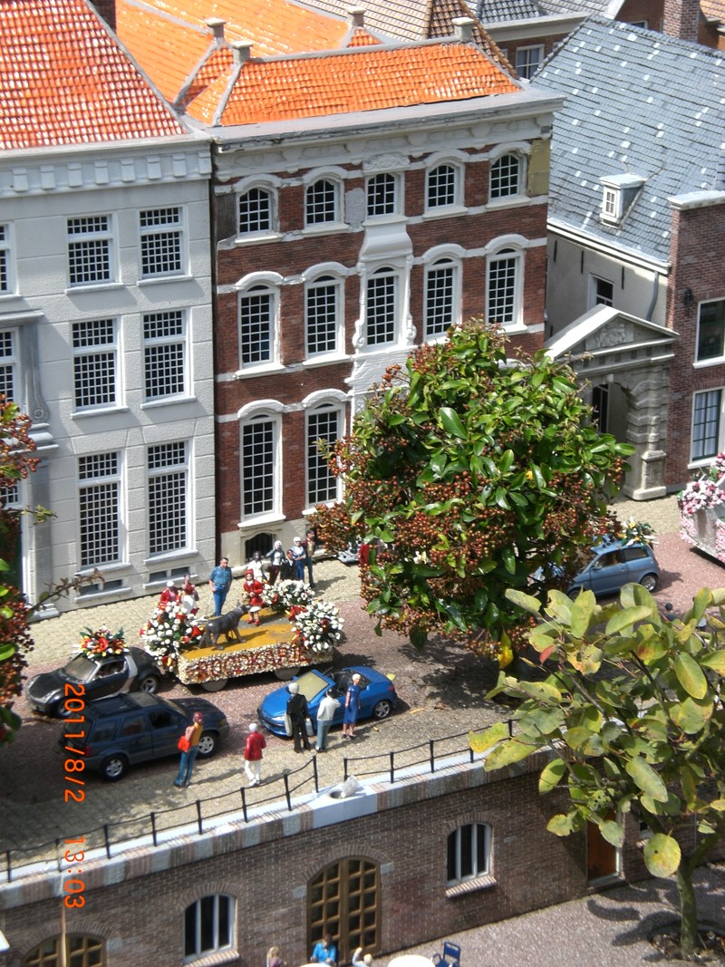 Oude Delft 123 in Madurodam in 2011. The entrance has been placed in the middel now, as with the real building.